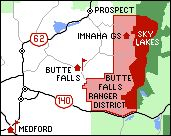 Map of Butte Falls Ranger District in western Oregon